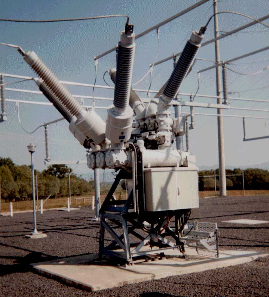 Hybrid switchgear 145kV, photo taken in Australia